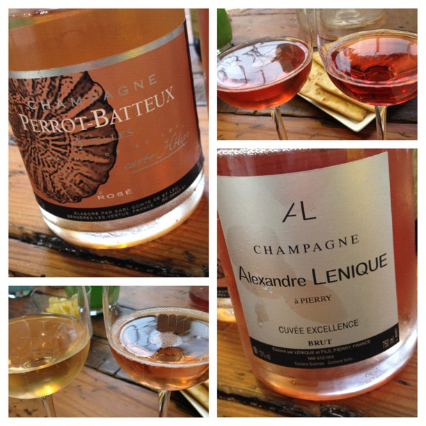 From author "Labels pictured a lighter style, down in glass on lower left. A earlier flight of 100% Pinot Noir and 100% Pinot Meunier upper right."